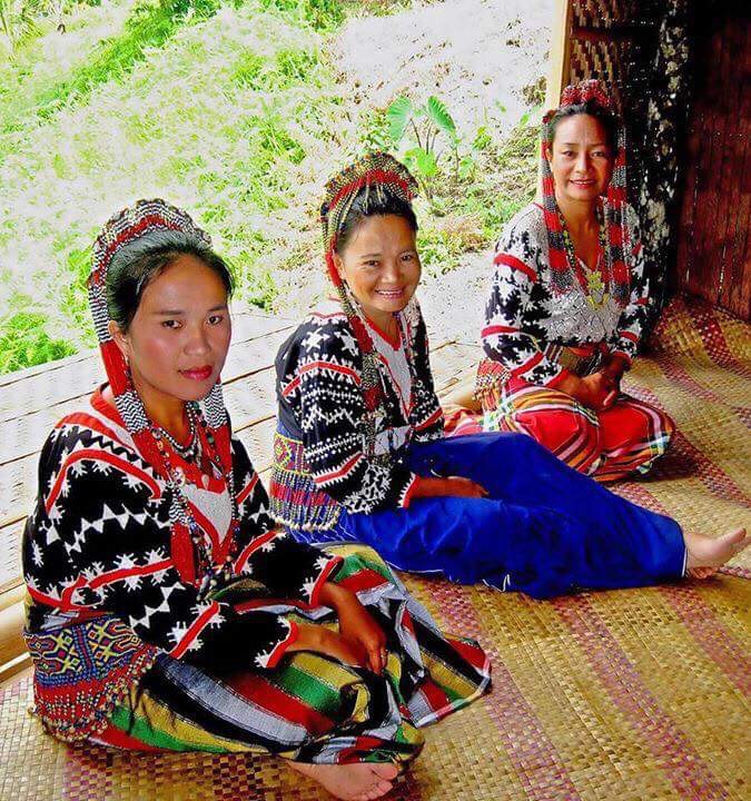 A group of Mansaka tribeswomen in their formal attire. A form under the Lumad community. Taken in 2015, Davao Province.